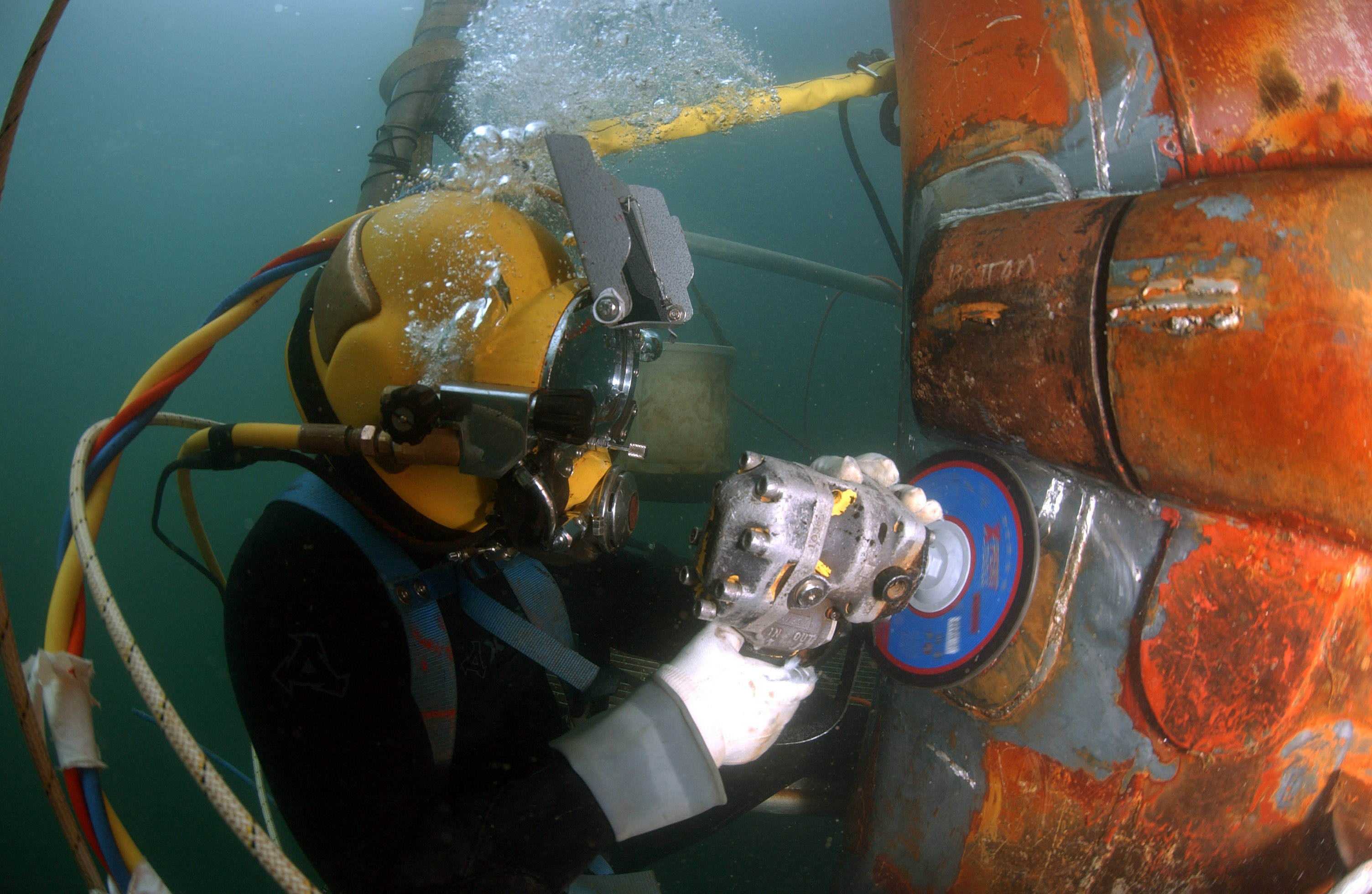 San Diego (Jan. 4, 2007) - Navy Diver 1st Class Josh Moore uses a grinder to file down a repair patch on the submerged bow of amphibious transport dock USS Ogden (LPD 5) while the ship was in port at Naval Base San Diego. Murray is a member of the Southwest Region Maintenance Center (SWRMC) Dive Locker's underwater welding team. U.S. Navy photo by Mass Communication Specialist Senior Chief Andrew McKaskle (RELEASED)